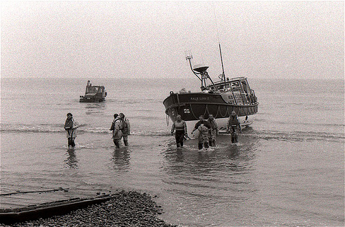 Sheringham Lifeboat Lloyds II ON 986 being returned to station